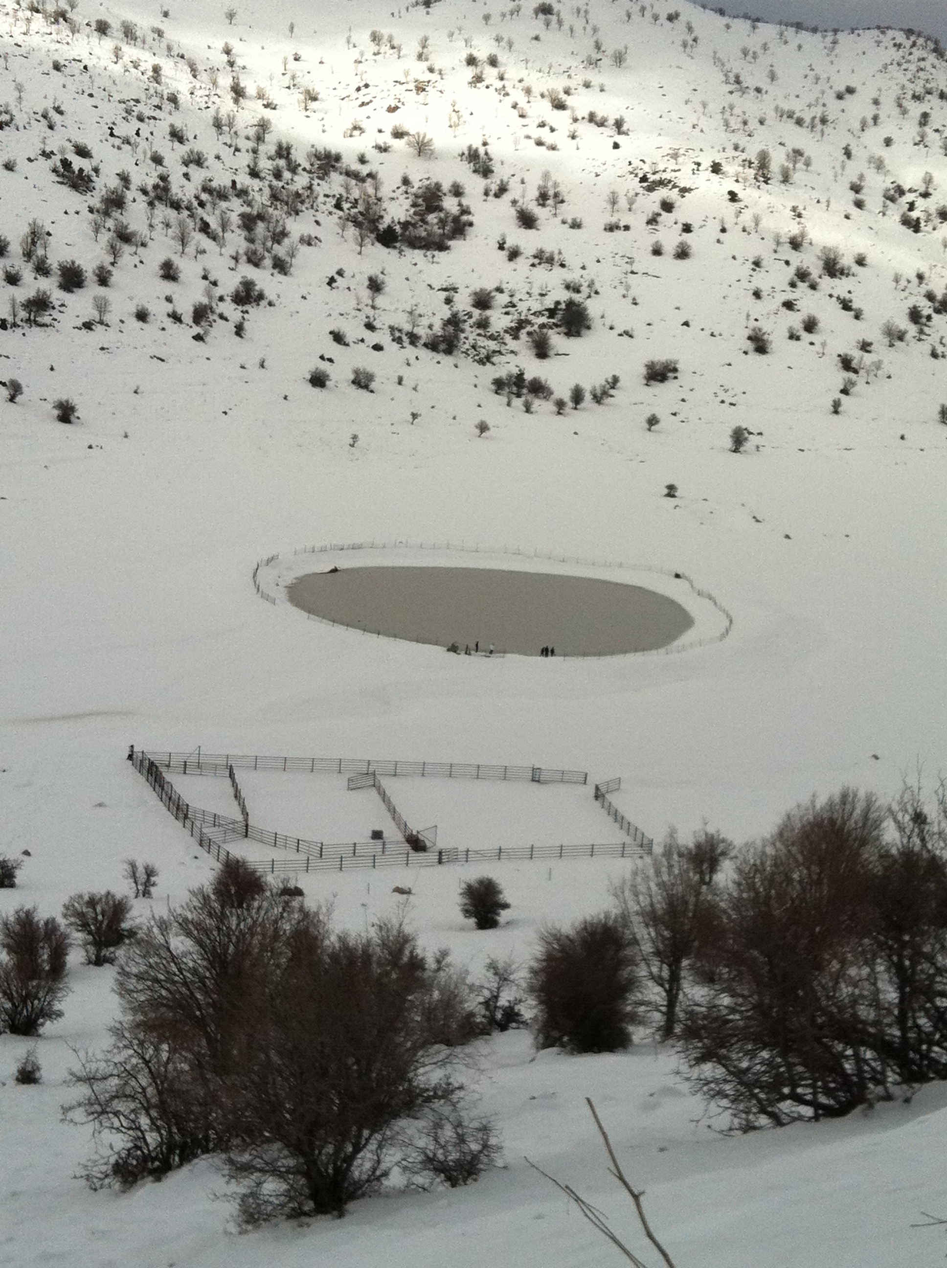 Geography of Israel